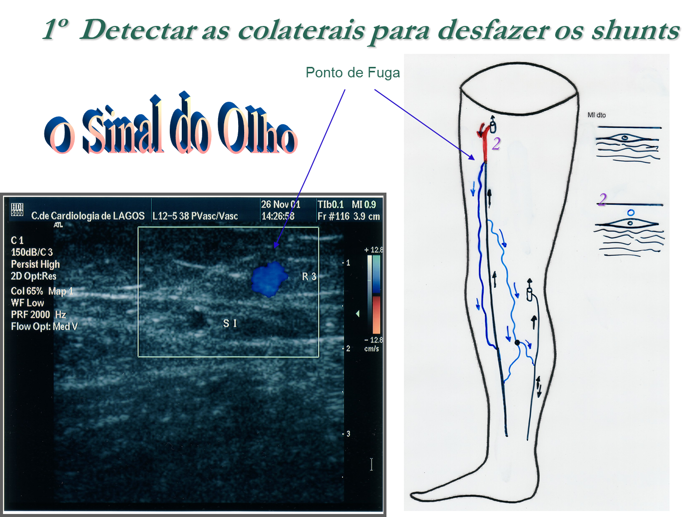 "Saphenous eye"